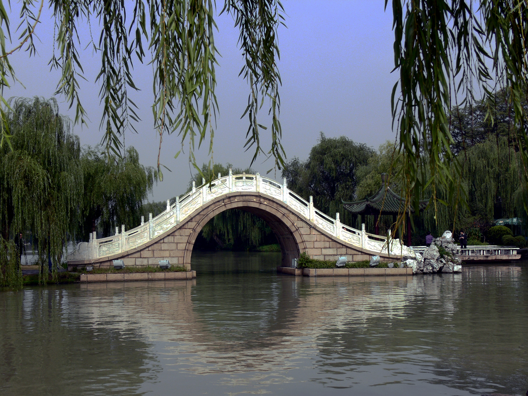 扬州瘦西湖二十四桥, The Twenty Four Bridge in the Thin West Lake,Yangzhou